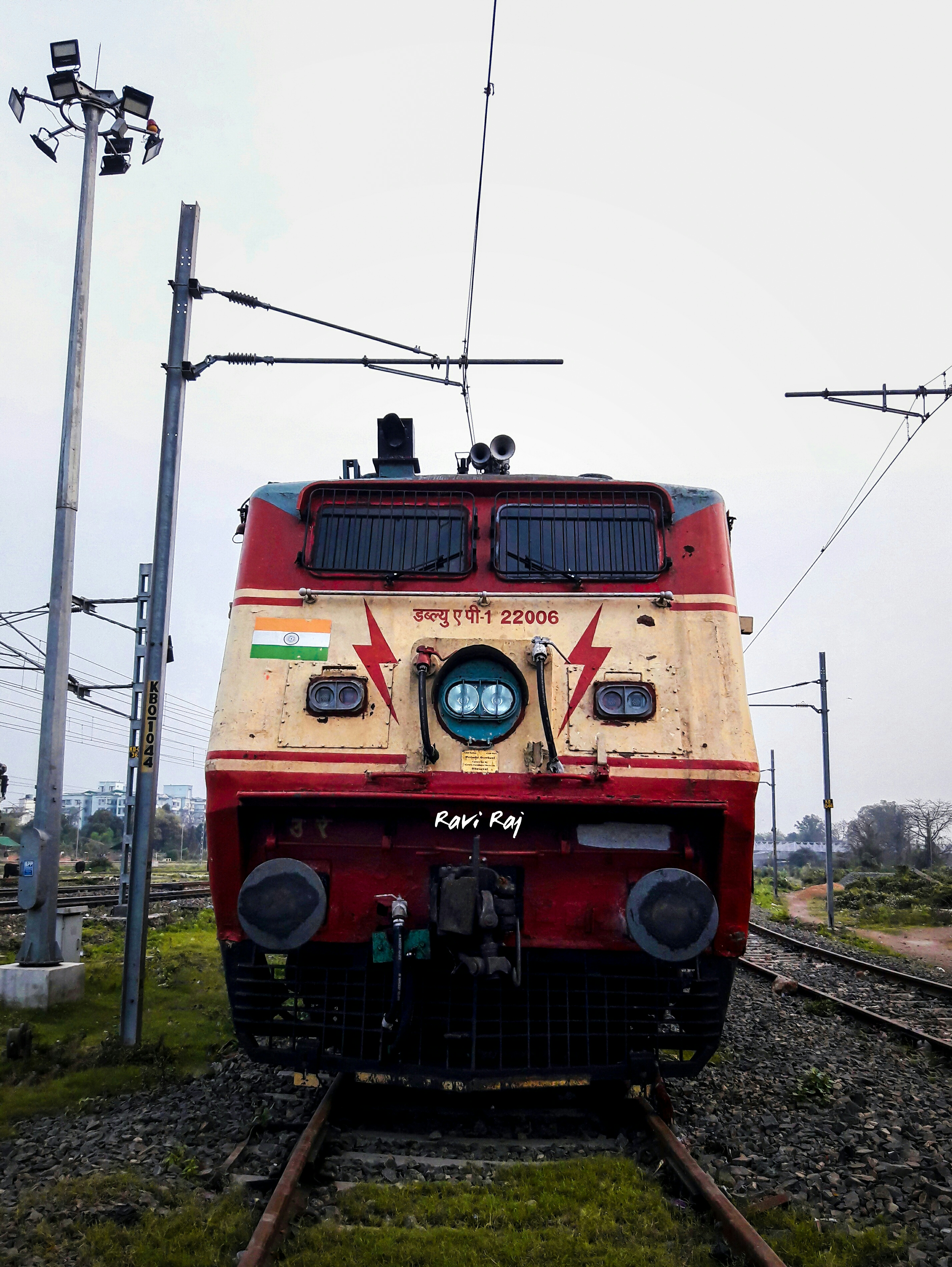 TKD WAP1 and Ex WAP3 22006 RajHans Standing at Katihar